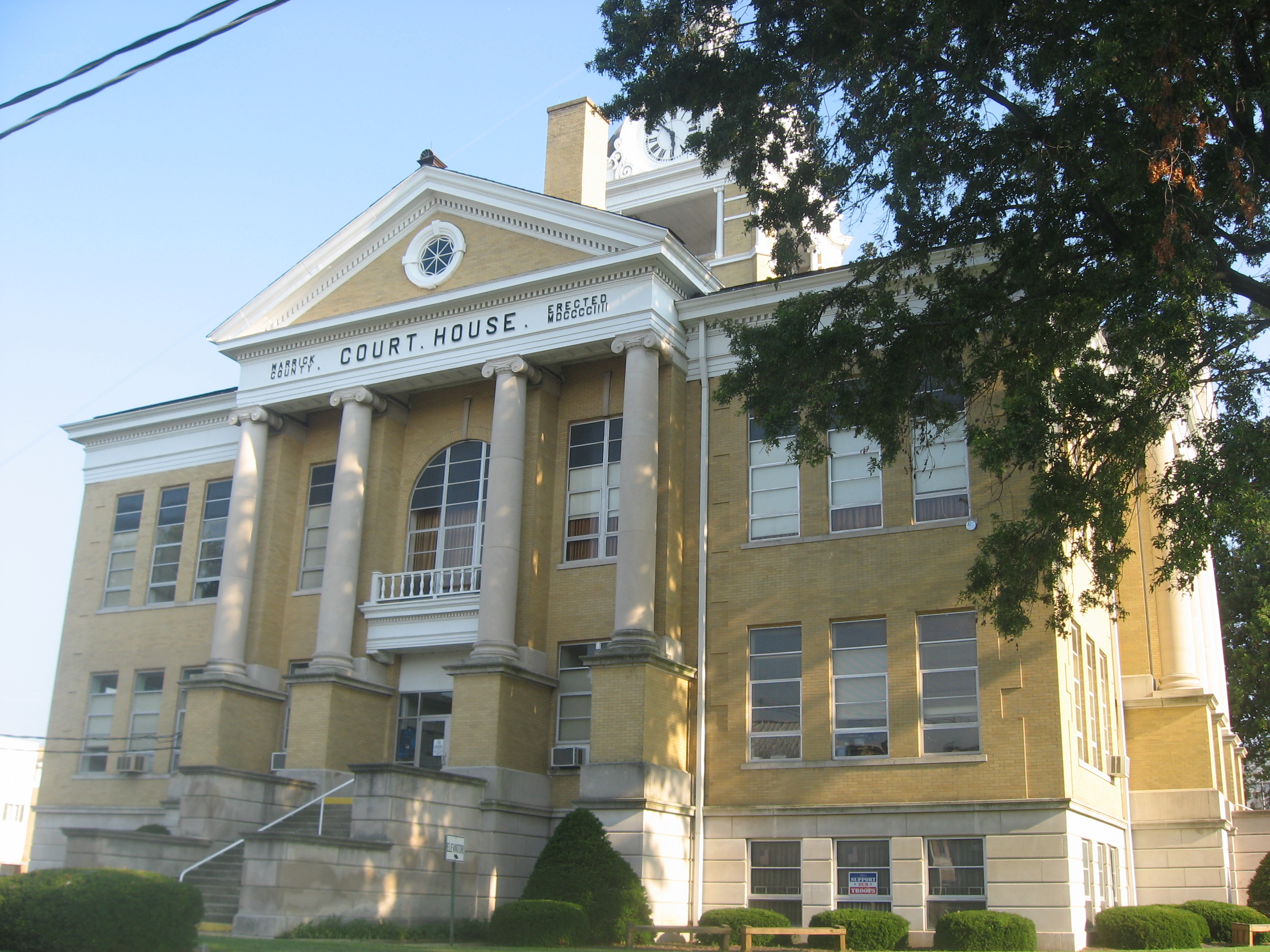 Northern side of the Warrick County Courthouse, located on Courthouse Square in Boonville, Indiana, United States. Built in 1904, it is part of the Boonville Public Square Historic District, a historic district that is listed on the National Register of Historic Places.